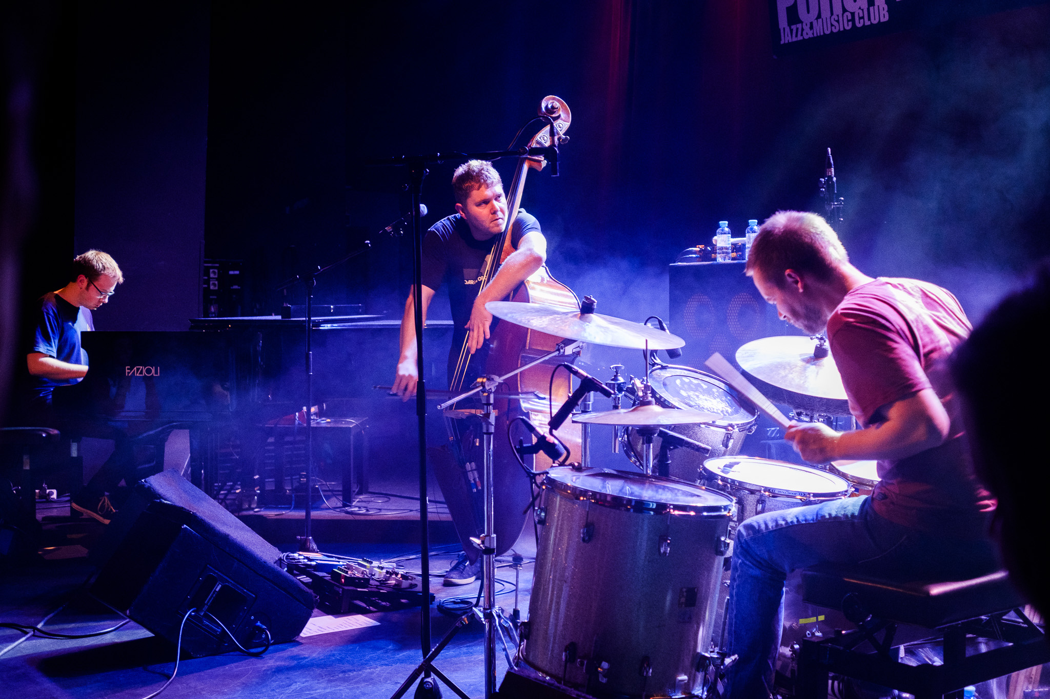 A concert photograph showing the band "GoGo Penguin" during their concert in the "Porgy & Bess" venue in Vienna (Austria) on 2018-11-01.